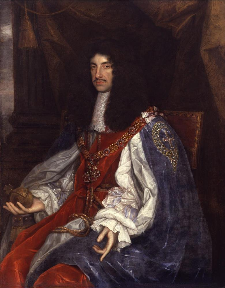 Portrait of Charles II, King of England, Scotland and Ireland